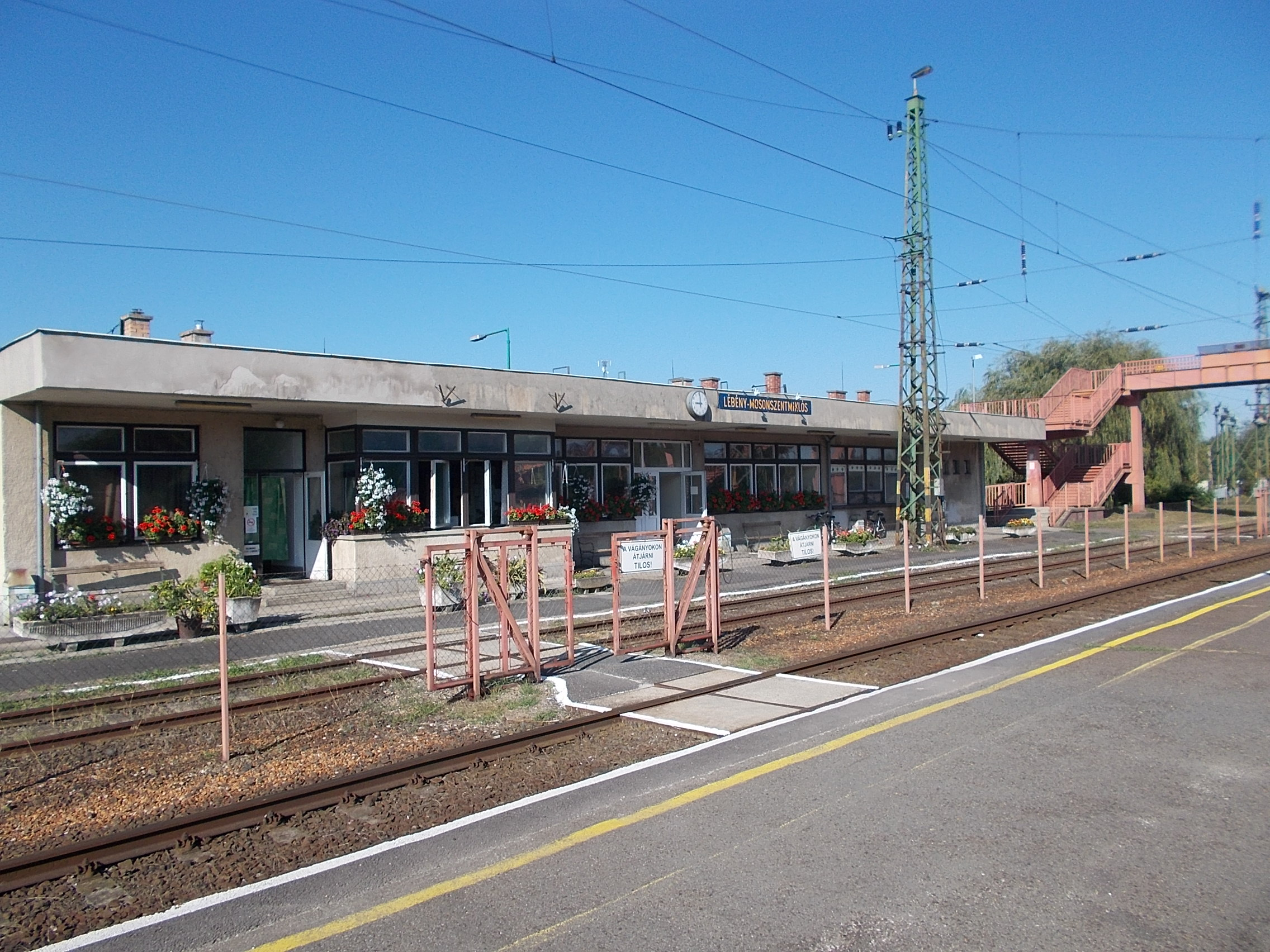 Lébény-Mosonszentmiklós railway station. - Mosonszentmiklós, Győr-Moson-Sopron County, Hungary.